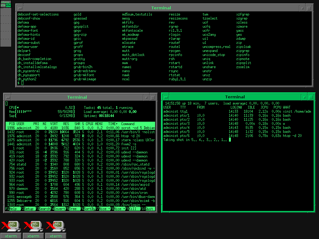 Green screen style for FVWM, using the "FVWM-min" package. Running on Debian GNU/Linux.